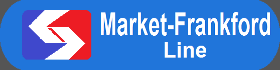 Wikivoyage route icon for SEPTA's Market-Frankford rapid transit line.